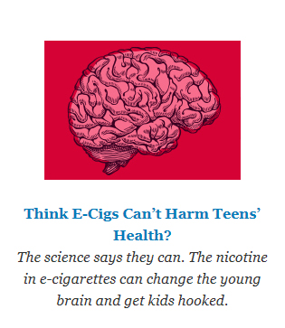 Almost 90 percent of adult daily smokers started smoking by the age of 18 and about 2,000 youth under 18 smoke their first cigarette every day in the United States. In fact, use of tobacco products, no matter what type, is almost always started and established during adolescence when the developing brain is most vulnerable to nicotine addiction.